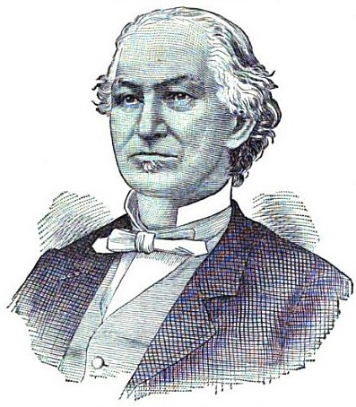 George W. Ladd (Maine Congressman)